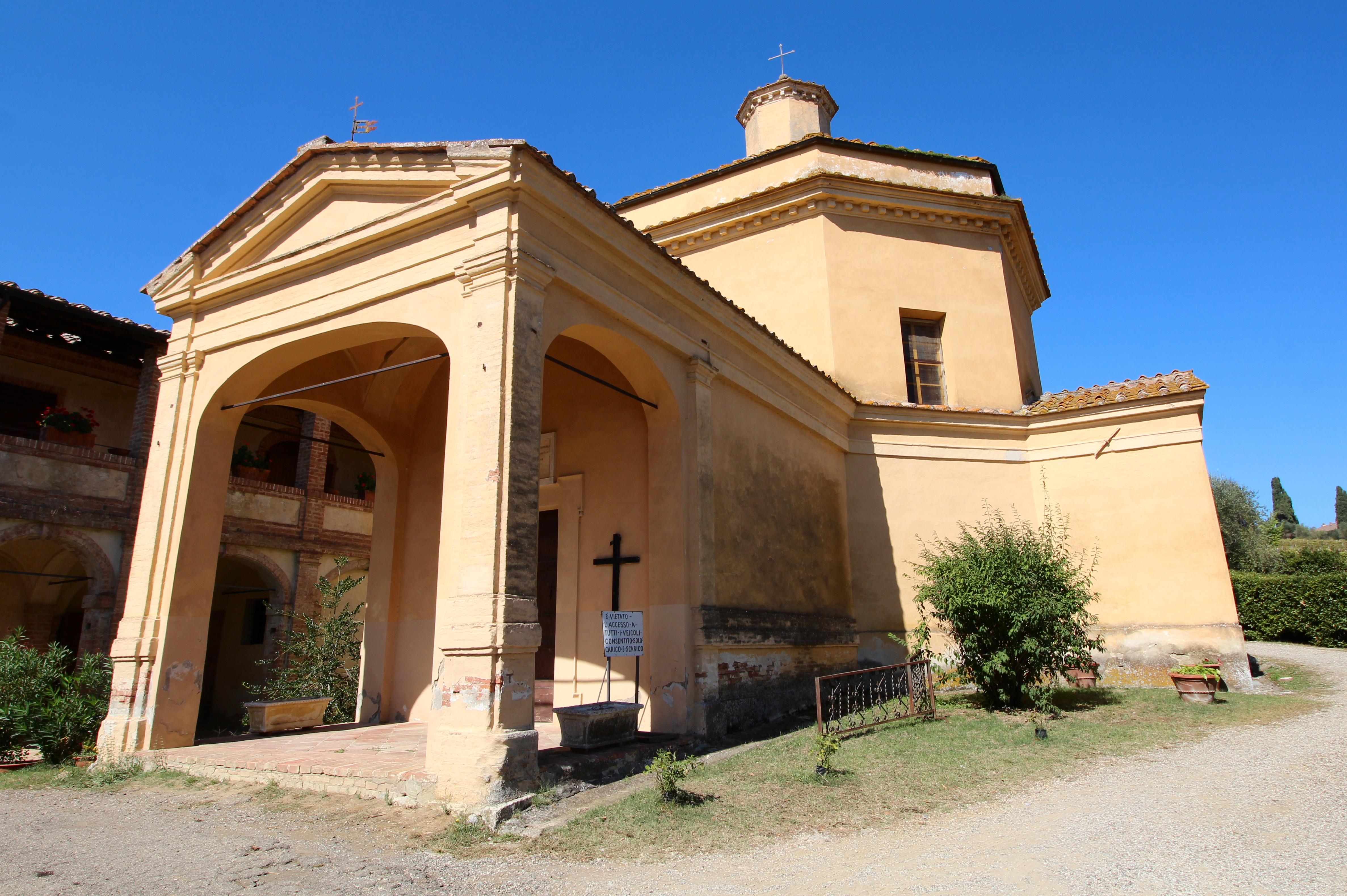 Church Santa Maria a Dofàna, Church in Monteaperti (Montaperti), Castelnuovo Berardenga, Province of Siena, Tuscany, Italy